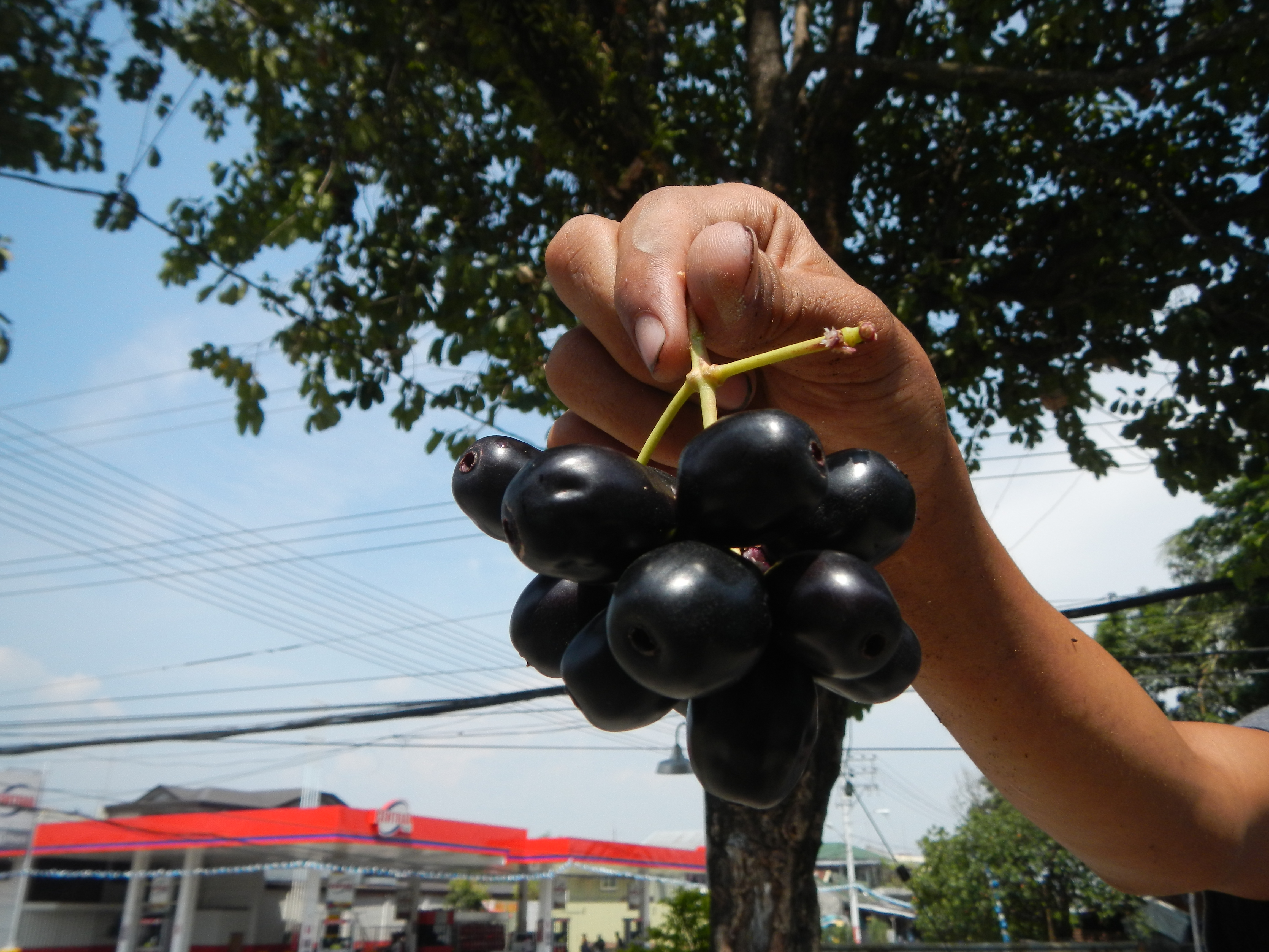 Syzygium cumini or Duhat tree and fruits in Barangay Santa Trinidad, Angeles City, Pampanga at the Welcome Arch of Barangay San Nicolas,Angeles City, Pampanga.